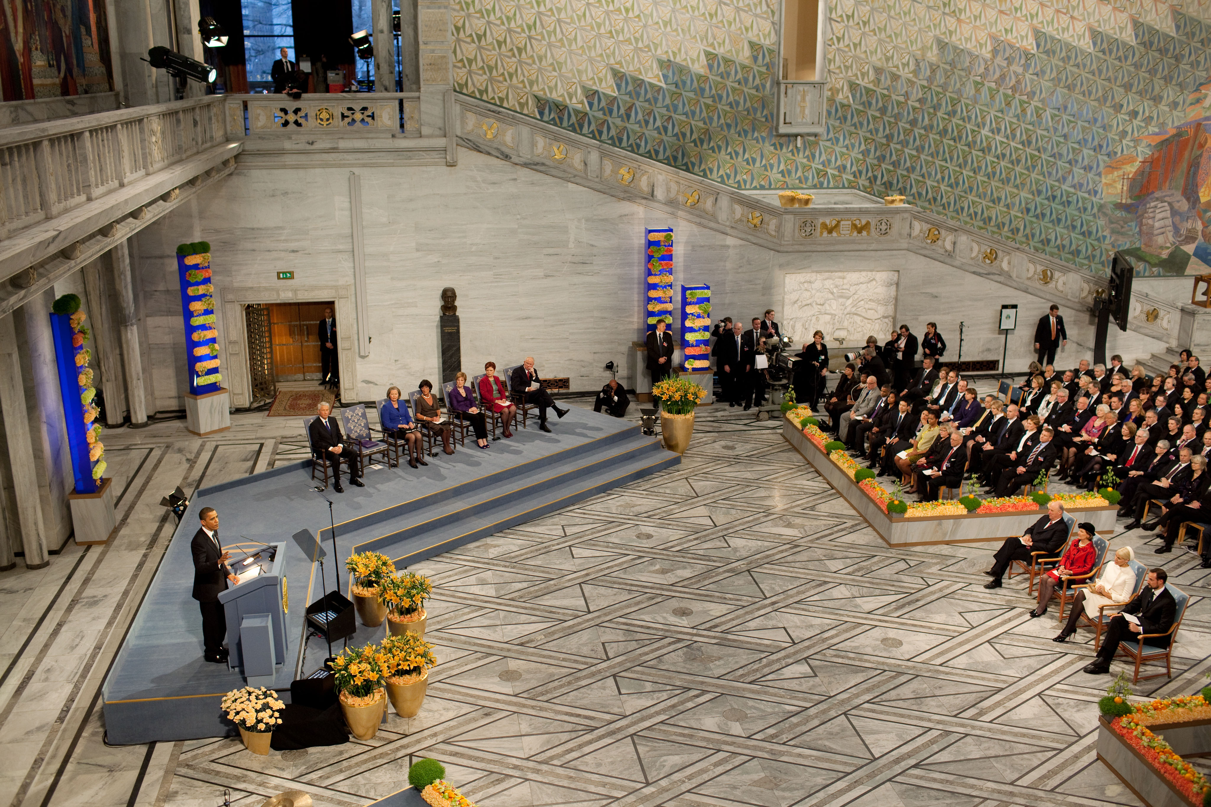 President Barack Obama delivers remarks during the Nobel Peace Prize ceremony in Raadhuset Main Hall at Oslo City Hall in Oslo, Norway, Dec. 10, 2009.